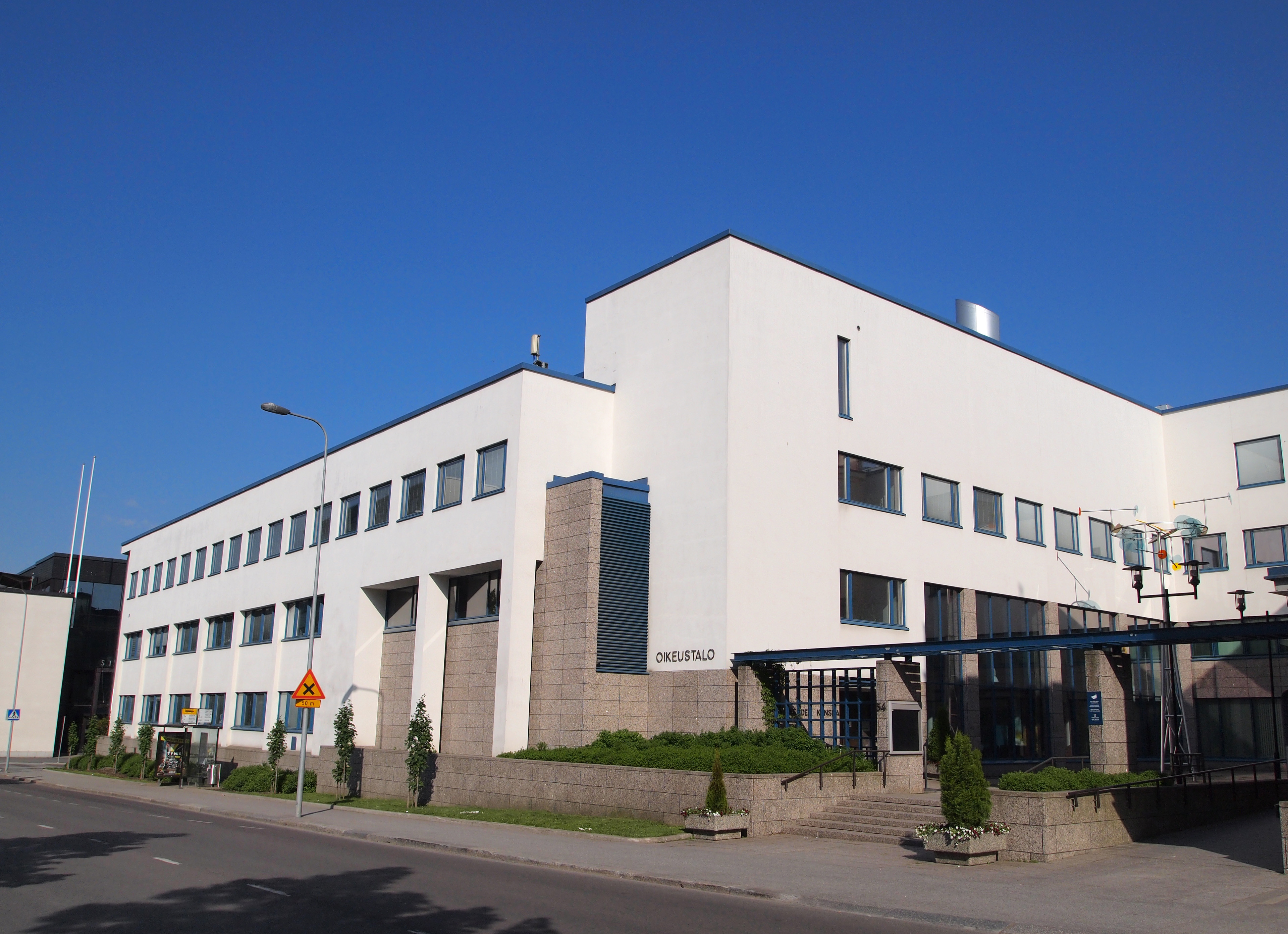 Court house in Jyväskylä. This photograph was taken with an Olympus E-PL1